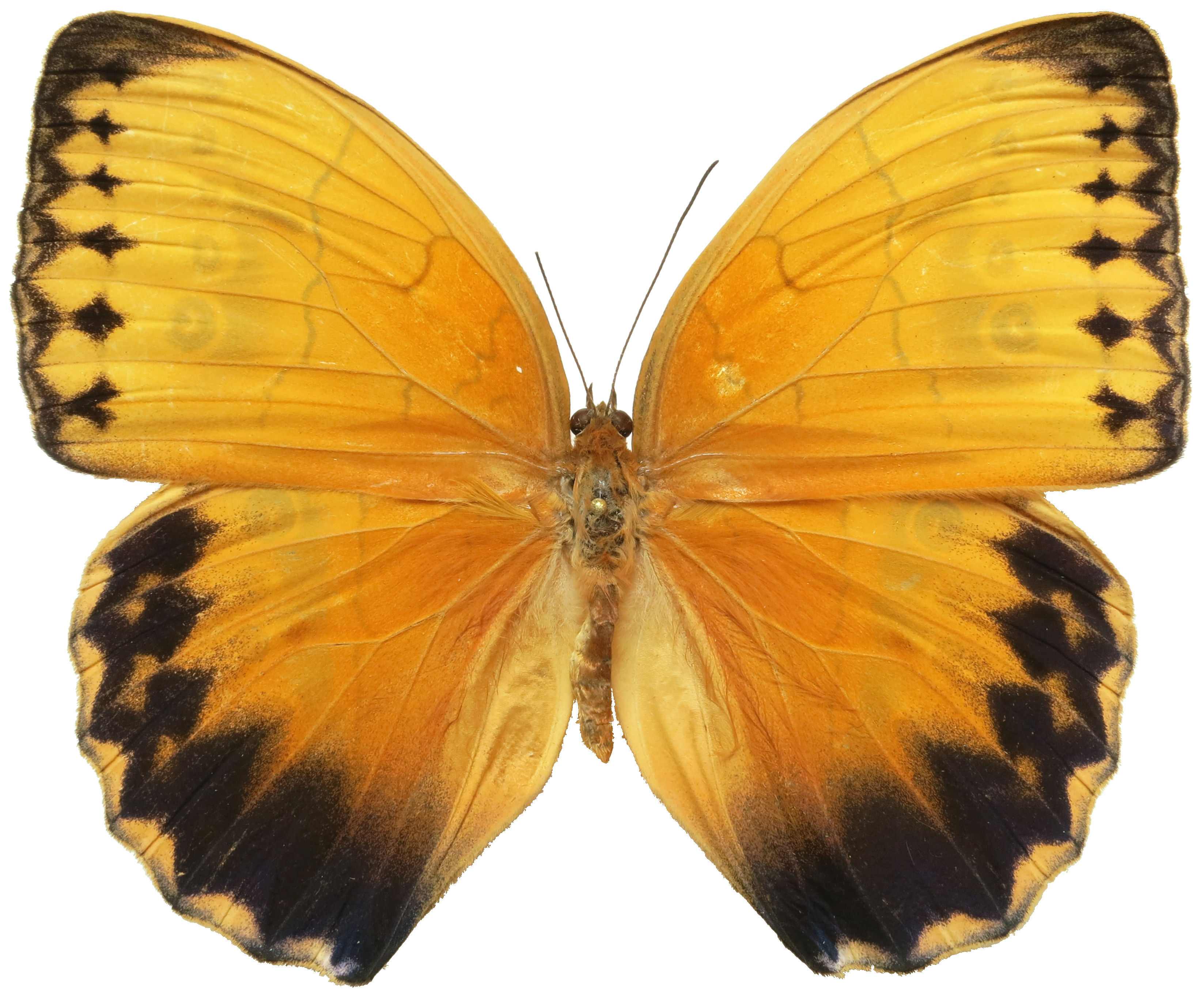 Stichophthalma howqua suffusa male from Lushan-Boaxing, Ya'an, Sichuan, China